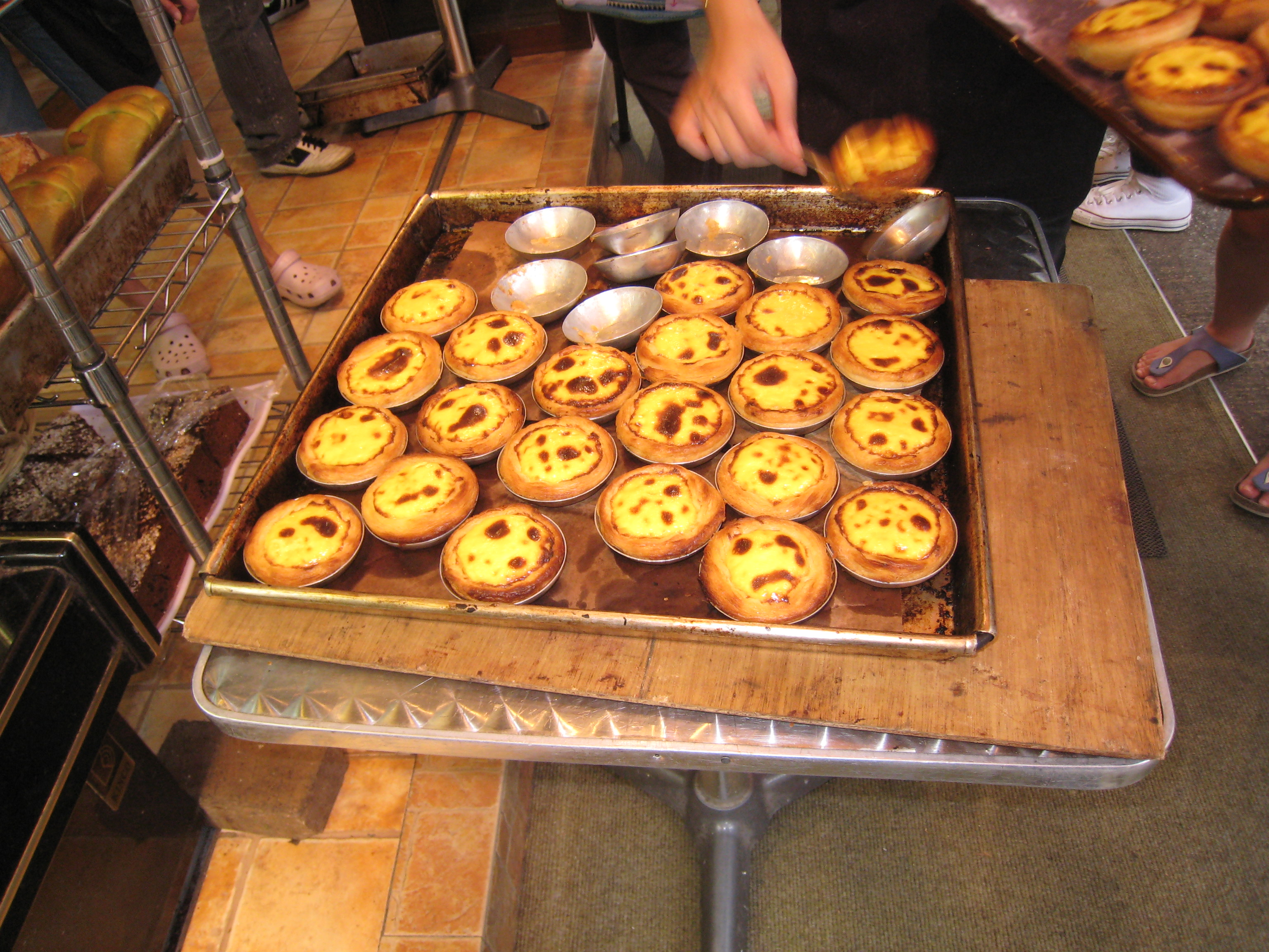 Portuguese egg tarts